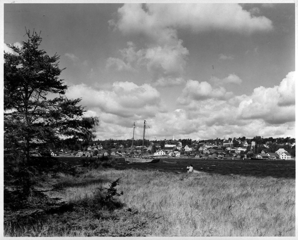 A view of the village of Baddeck, Nova Scotia, Canada, looking across Baddeck harbour from Lighthouse Point on Kidston Island.